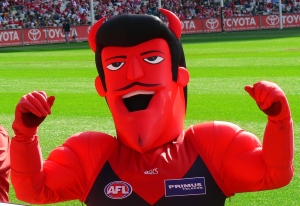 Rotten Ronald Deeman - Melbourne Football Club's mascot